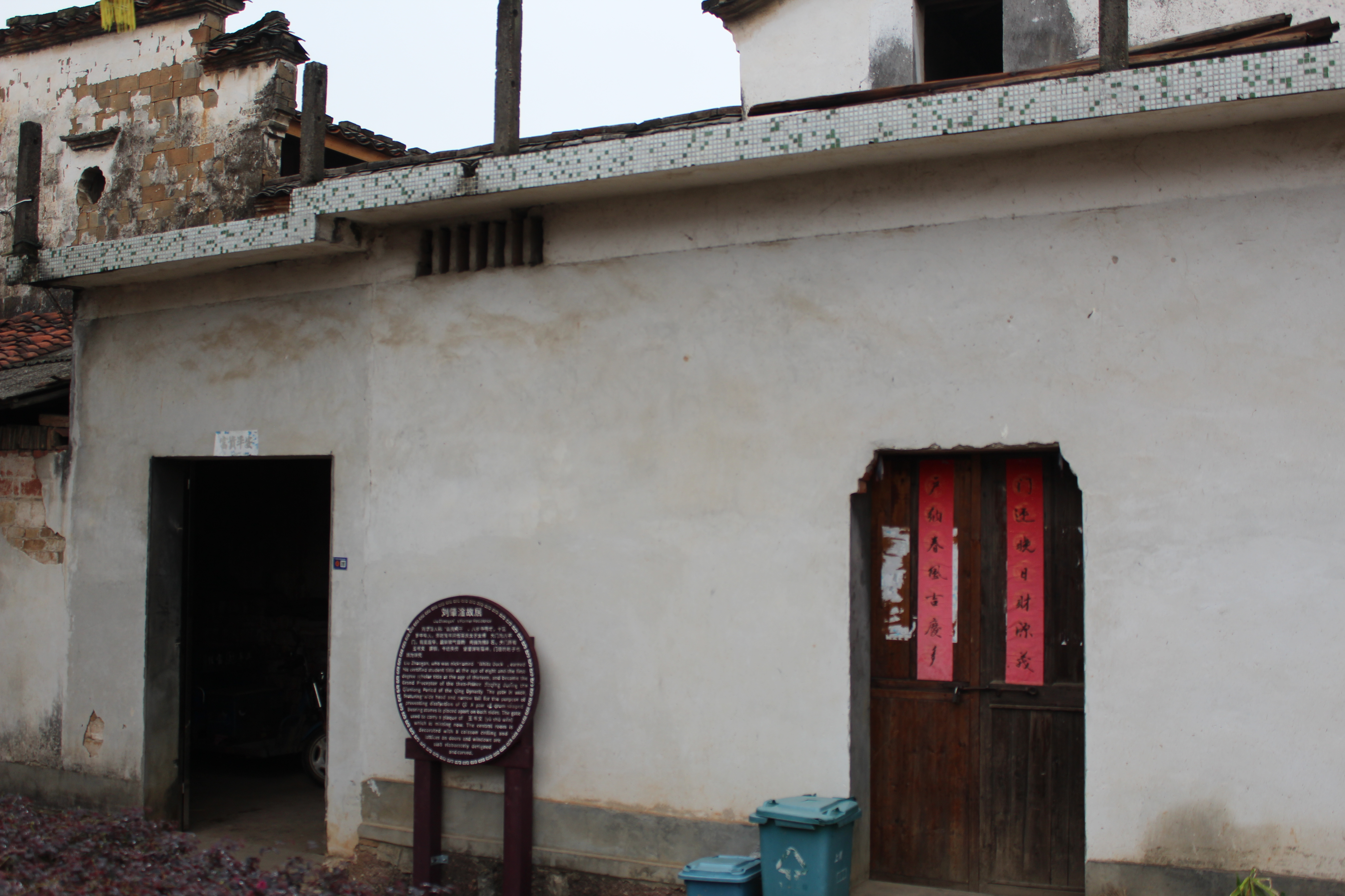 Photo of a historical building in Shangjing